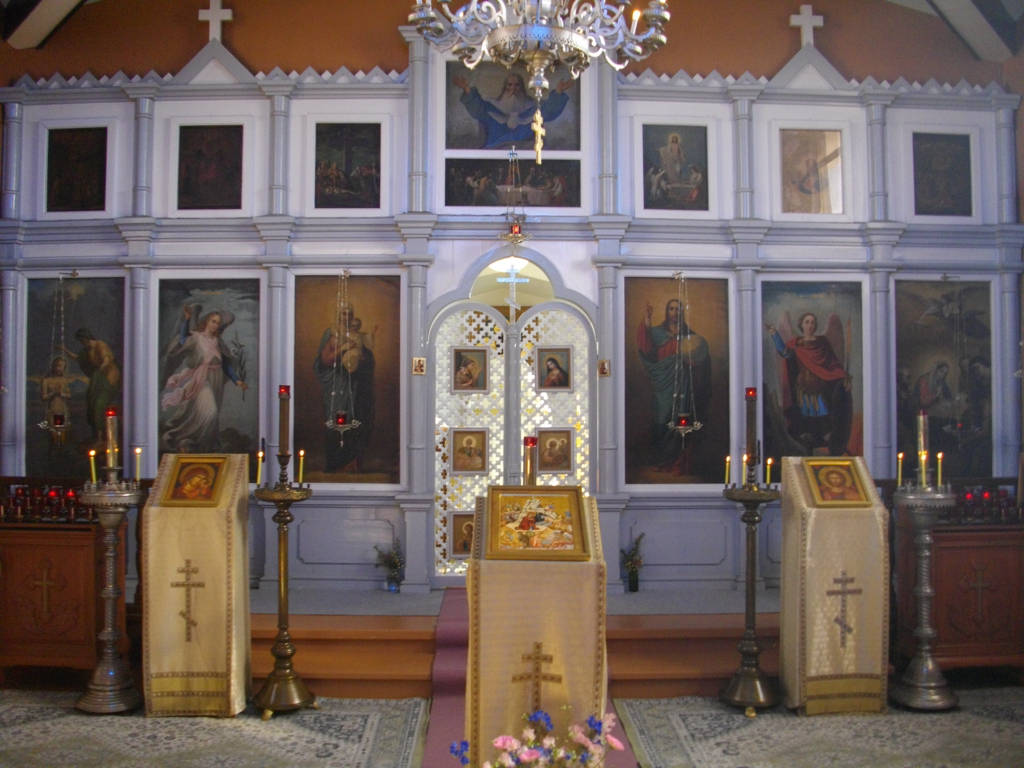 The Orthodox Church in Takasaki, which belongs to the Orthodox Church in Japan